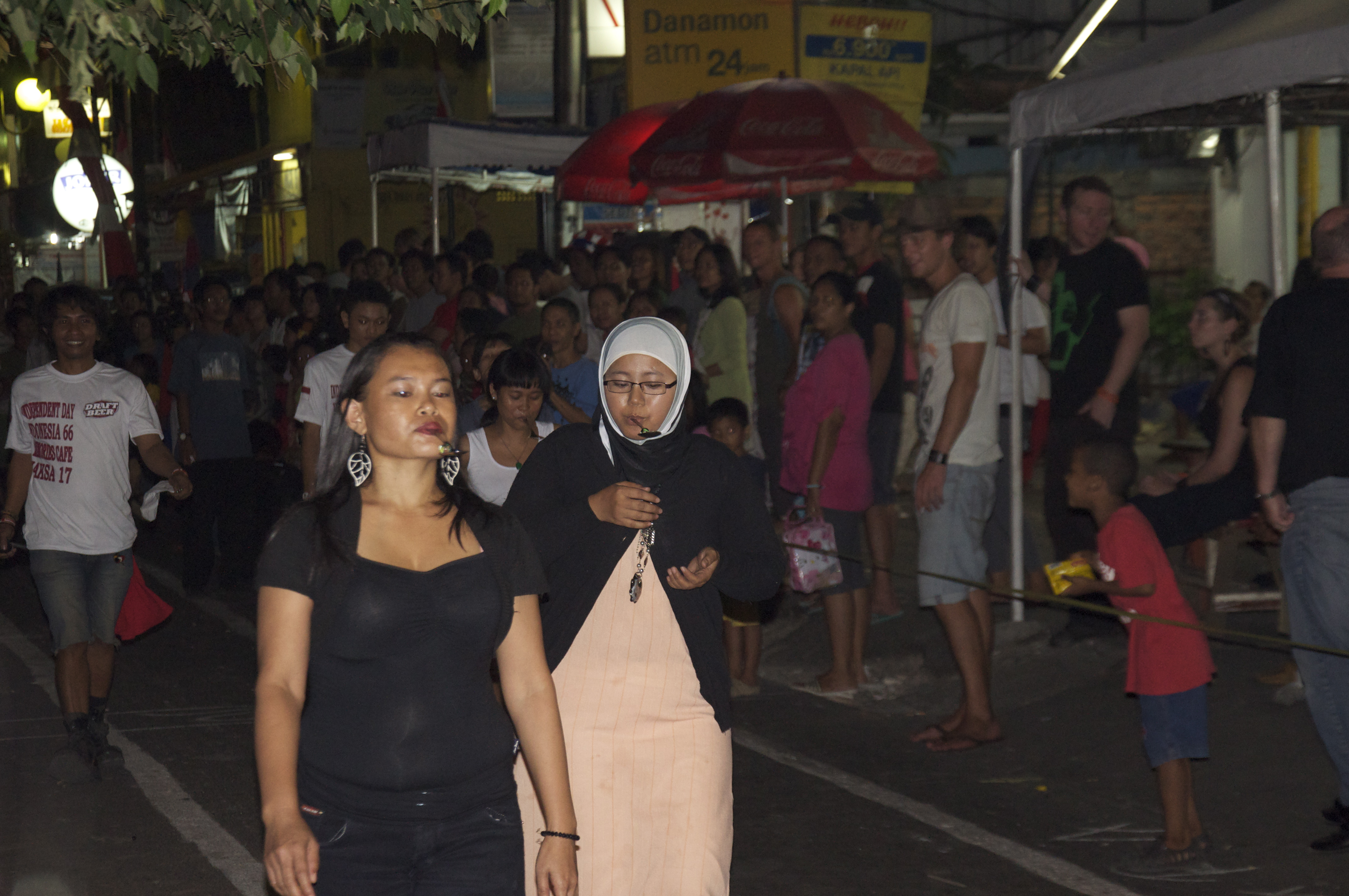 Marble spoon race celebrating Indonesian Independence Day at Jalan Jaksa, Jakarta